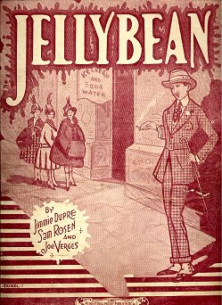 "Jellybean", 1920 sheet music cover, scanned from original in Infrogmation collection